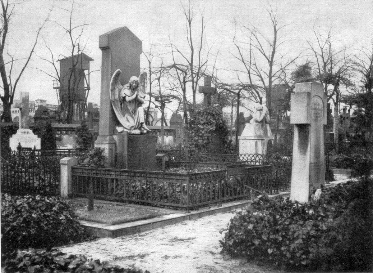 grave field F on Invalidenfriedhof cemetery in Berlin in 1925, destroyed when it became part of the death strip at the Berlin Wall